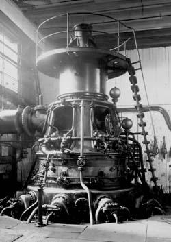 Photo of a Holzwarth gas turbine installed at the Thyssen facilities in Essen, Germany